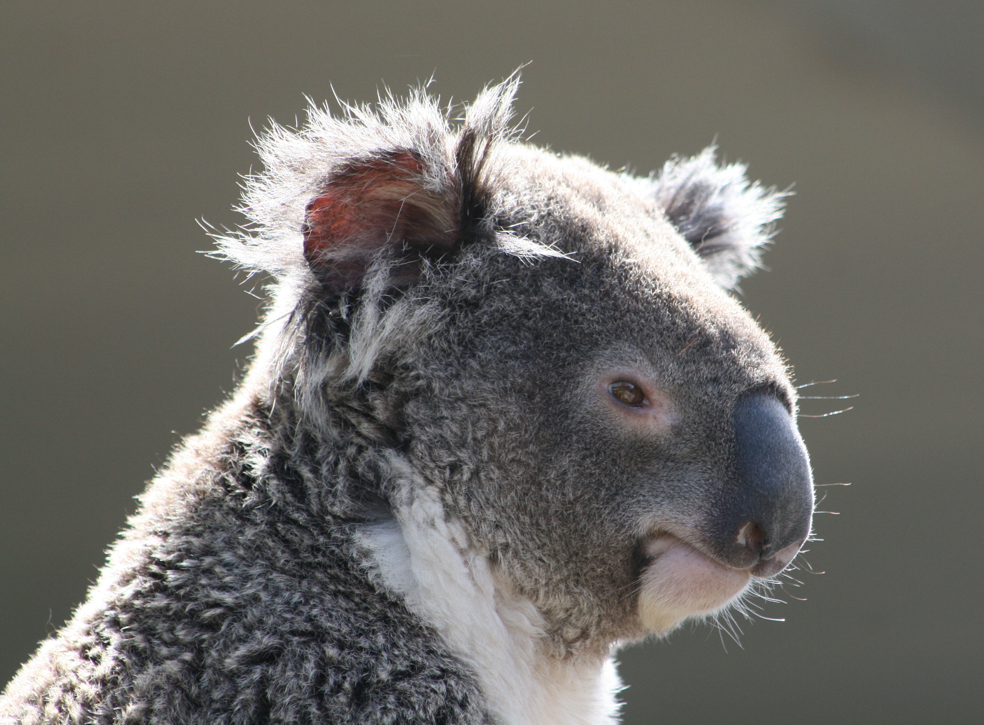 Koala (Phascolarctos cinereus), Australia